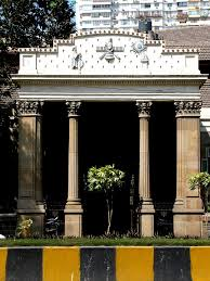 Fire Temple at Tardeo